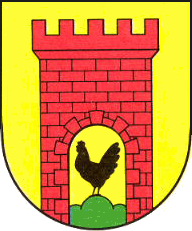 Coat of Arms of Kaltennordheim